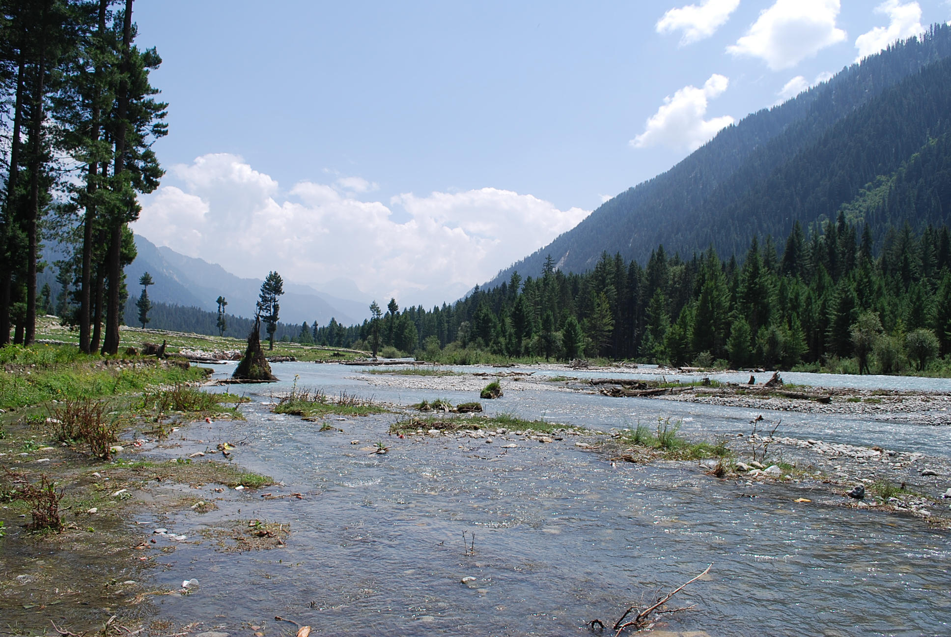 Natural water